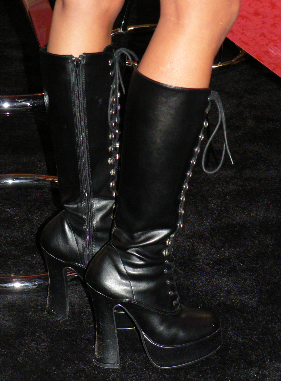 Black boots with high heels, modern zipper and with lacing like in the old days.